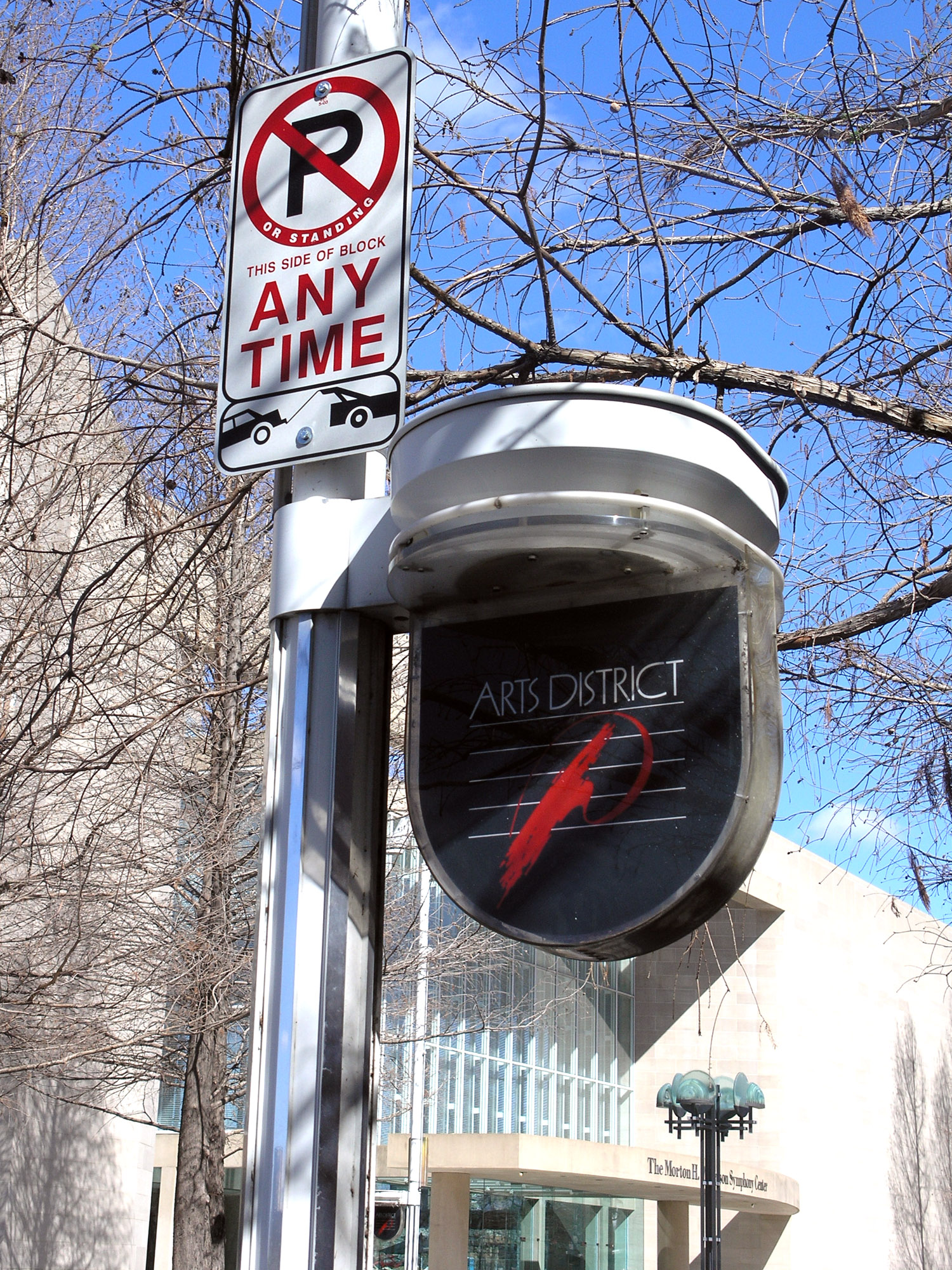 A sign bearing the logo of the Arts District in downtown Dallas, Texas (USA).